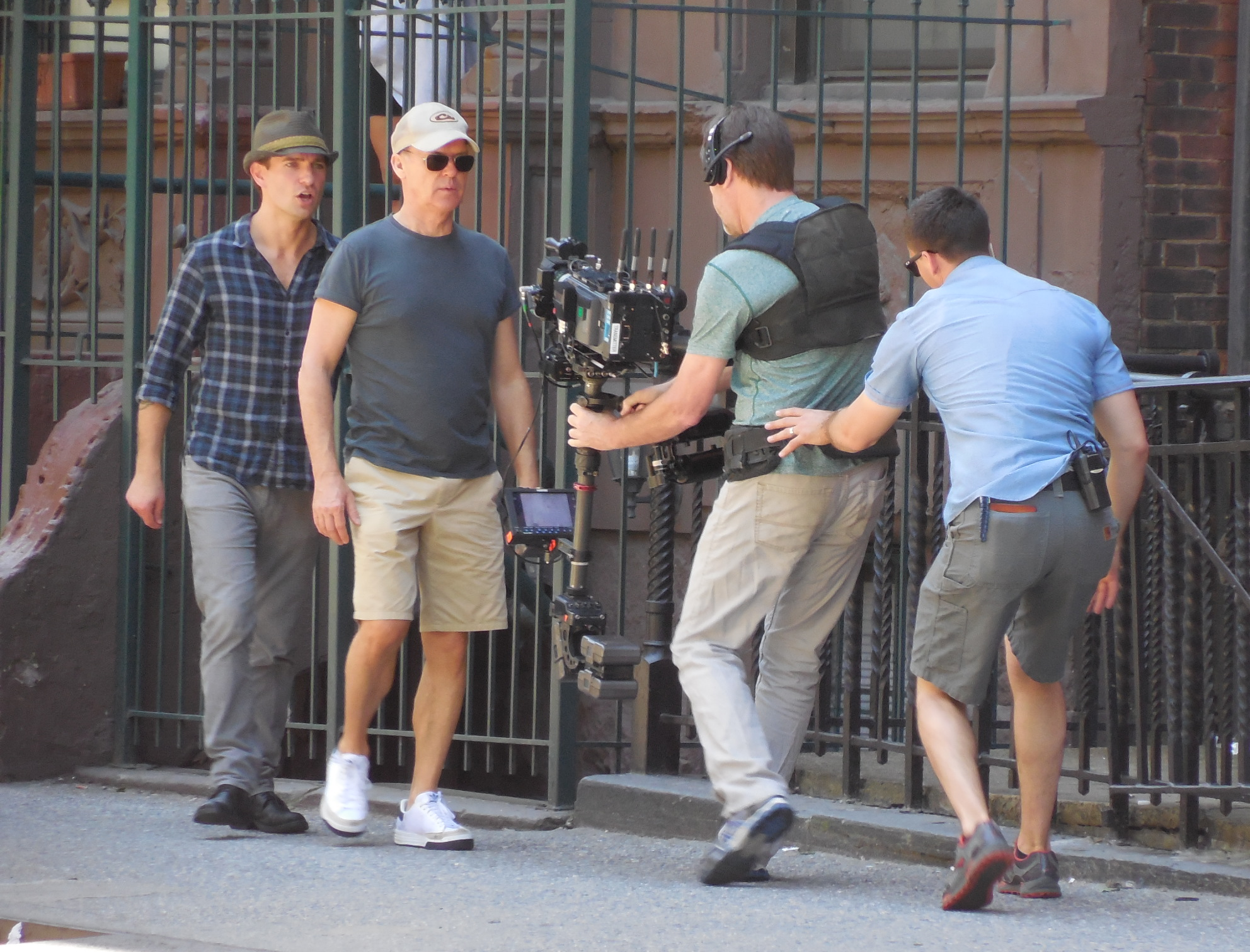 Benjamin Kanes and Michael Keaton rehearsing the action sequence of Birdman in 43rd St, Manhattan